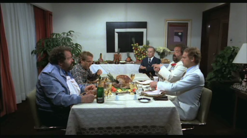 incontro- non c'è 2 senza 4